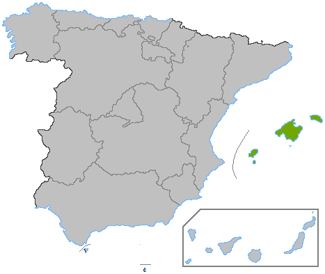 Location of the Balearic Islands, in Spain. Basado en: ProvPont.jpg Source: Designed by Satesclop. Original picture, designed by Sobreira.